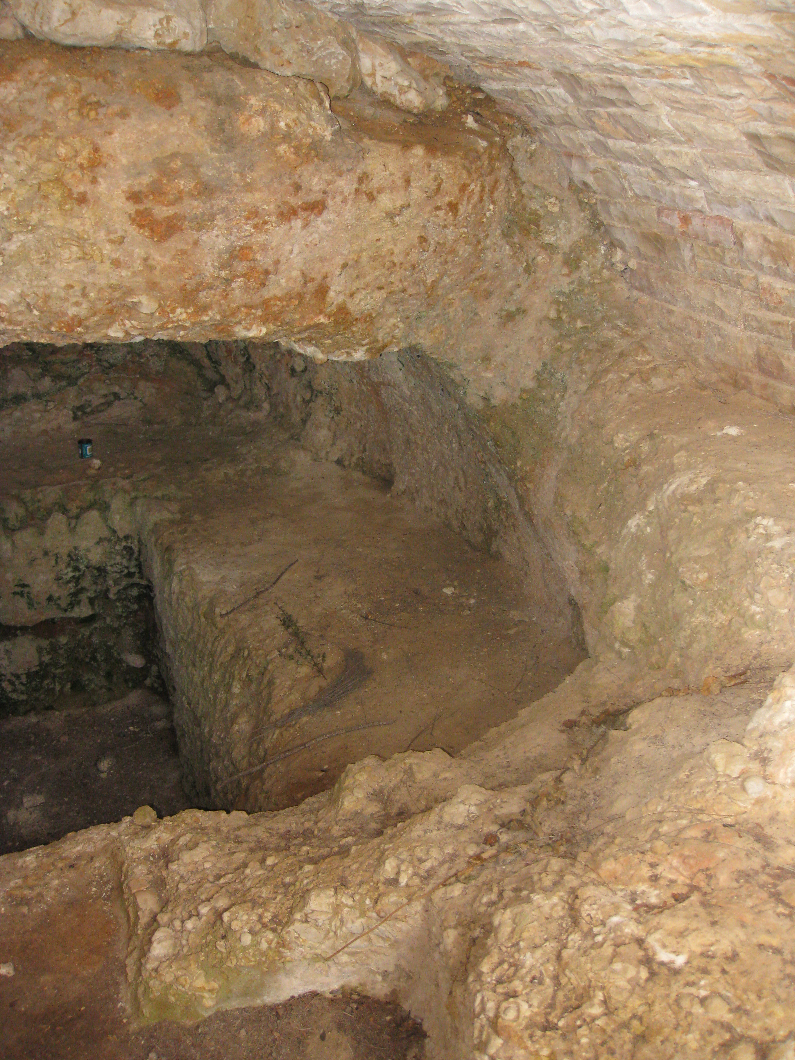 Mount Herzl - Independence War Plot - A Second Temple Period grave found in the plot